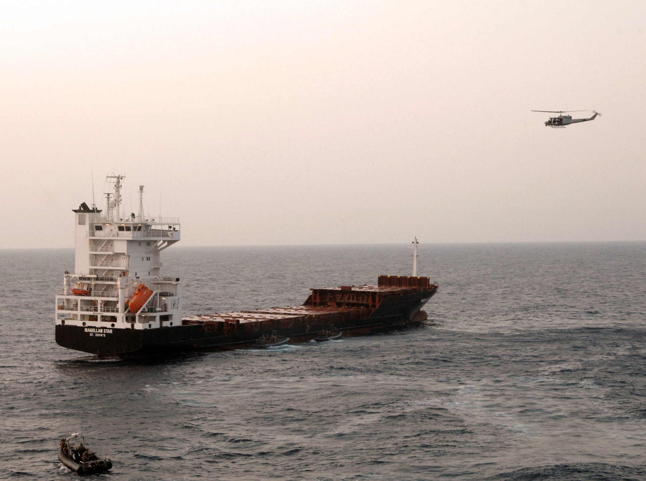 GULF OF ADEN (Sept. 9, 2010) A UH1N Twin Huey helicopter provides cover as Marines assigned to the U.S. Marine Corps 15th Marine Expeditionary Unit, Maritime Raid Force, embarked aboard the U.S. Navy amphibious transport dock ship USS Dubuque (LPD 8), board the motor vessel M/V Magellan Star during a board and seizure operation. The Marines took nine suspected pirates into custody and transferred them to the guided-missile cruiser USS Princeton (CG 59). The ship's eleven crew members resumed control of Magellan Star. Pirates took control of the ship Sept. 8. Dubuque is part of the Peleliu Amphibious Ready Group, supporting maritime security operations and theater security cooperation efforts in the U.S. 5th Fleet area of responsibility. (U.S. Navy photo by Cmdr. Christopher Nodine/Released)